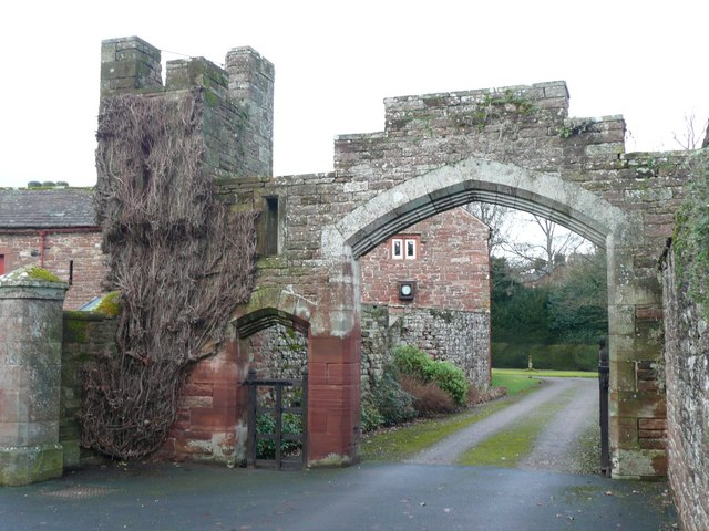 Gateway to The College, Kirkoswald The college was for priests, founded in 1523 but closed at the Dissolution and bought by Henry Fetherstonhaugh of Southwaite in 1590. The front of the building was rebuilt in 1696 in a progressive style. This gateway is not medieval, but was built in 1848 in neo-Gothis style.